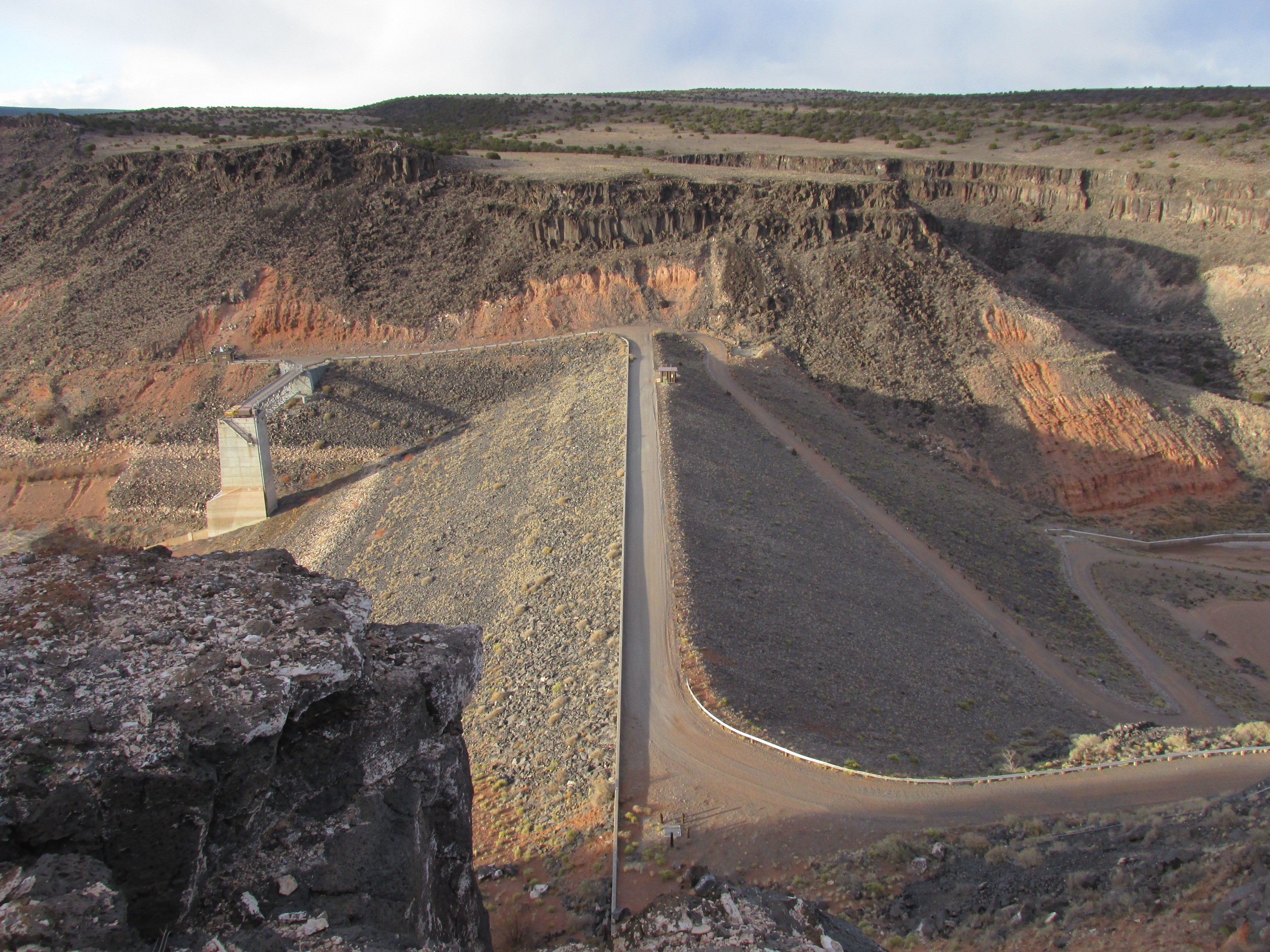 Jemez Dam, Santa Ana Pueblo New Mexico